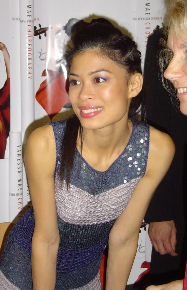 Vanessa-Mae at Royal Festival Hall, London